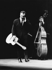 Georges Brassens